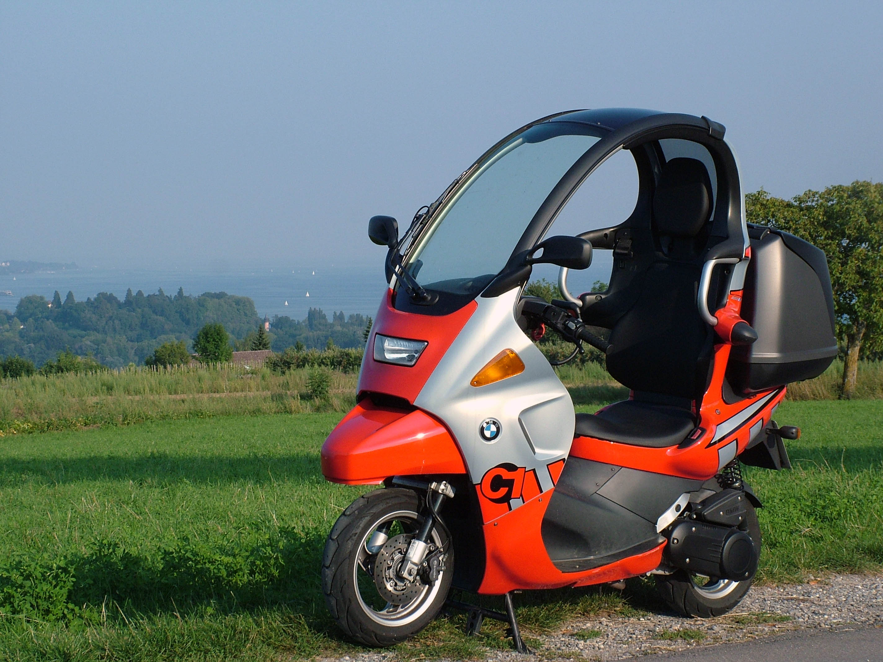 BMW C1 Scooter